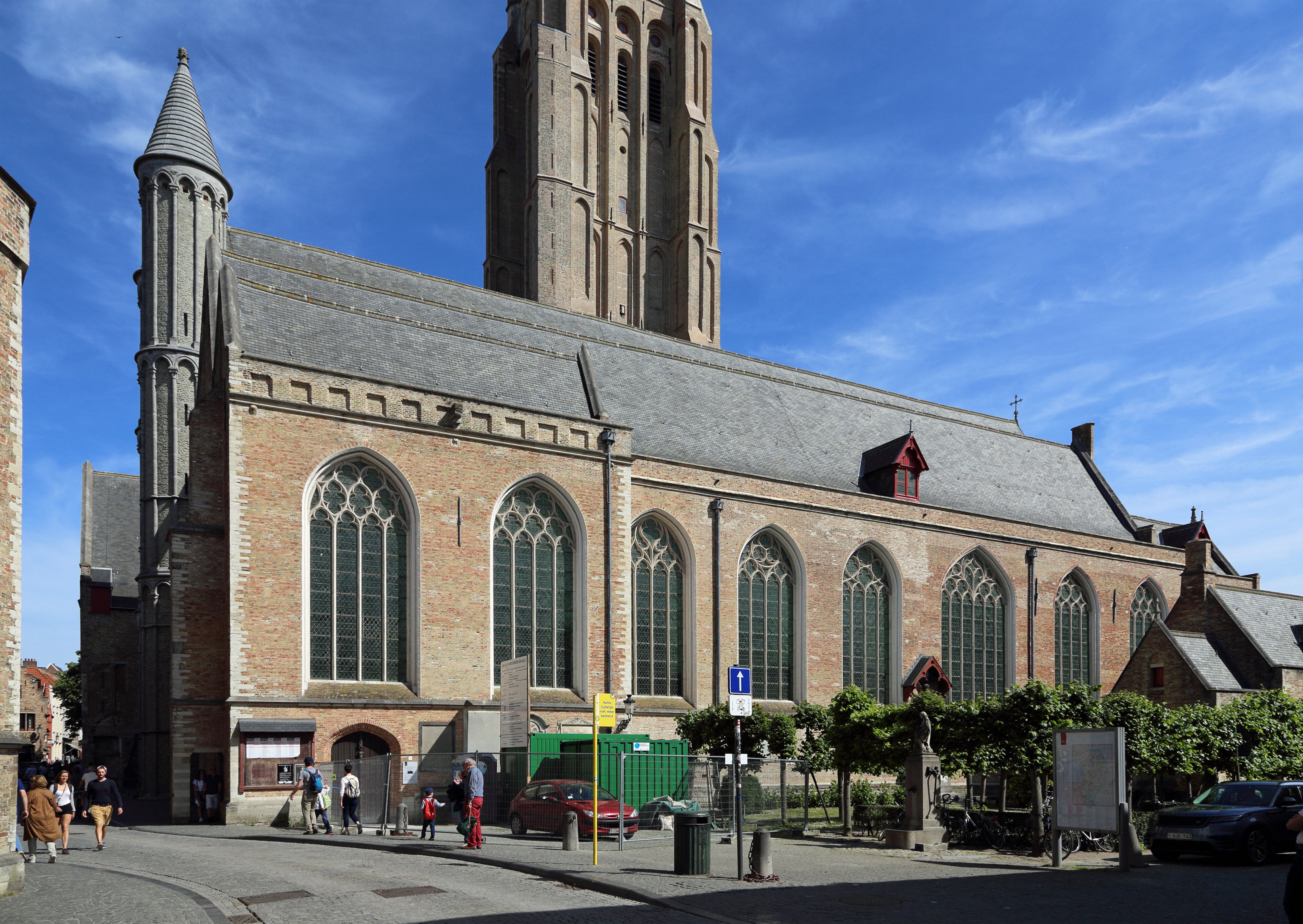 Bruges (Belgium): Church of Our Lady, southern side